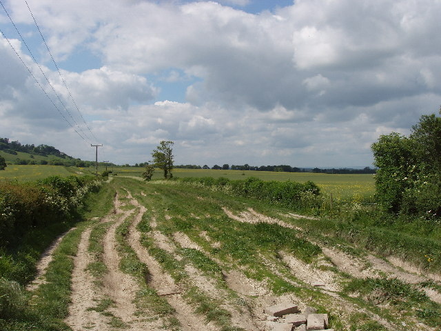 Icknield Way by Hill Farm, Lewknor Icknield way runs below the Chilterns' Scarp, and forms part of The Ridgeway Long Distance Path.